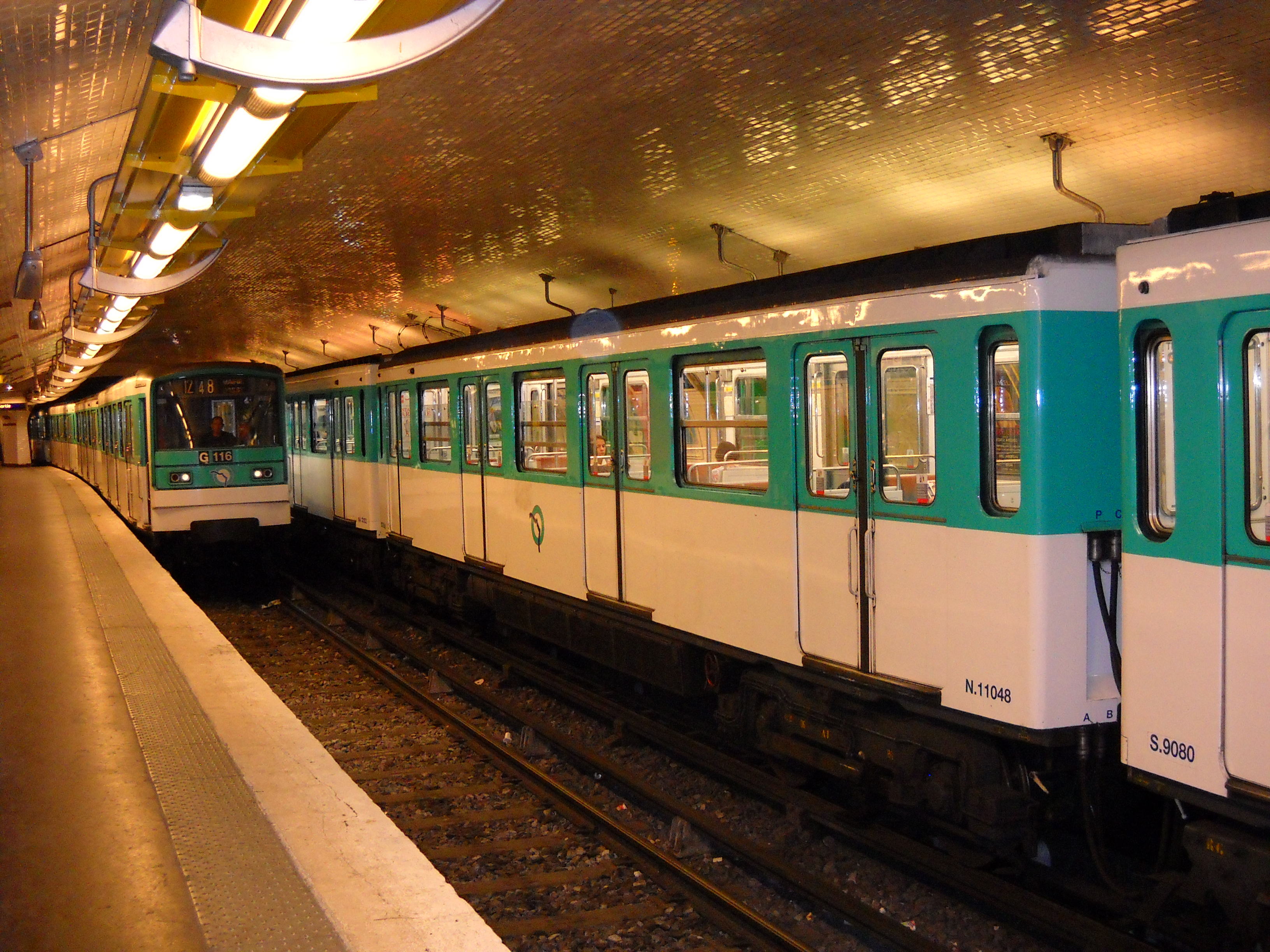 "Mairie d'Issy" station, on Paris Metro line 12.